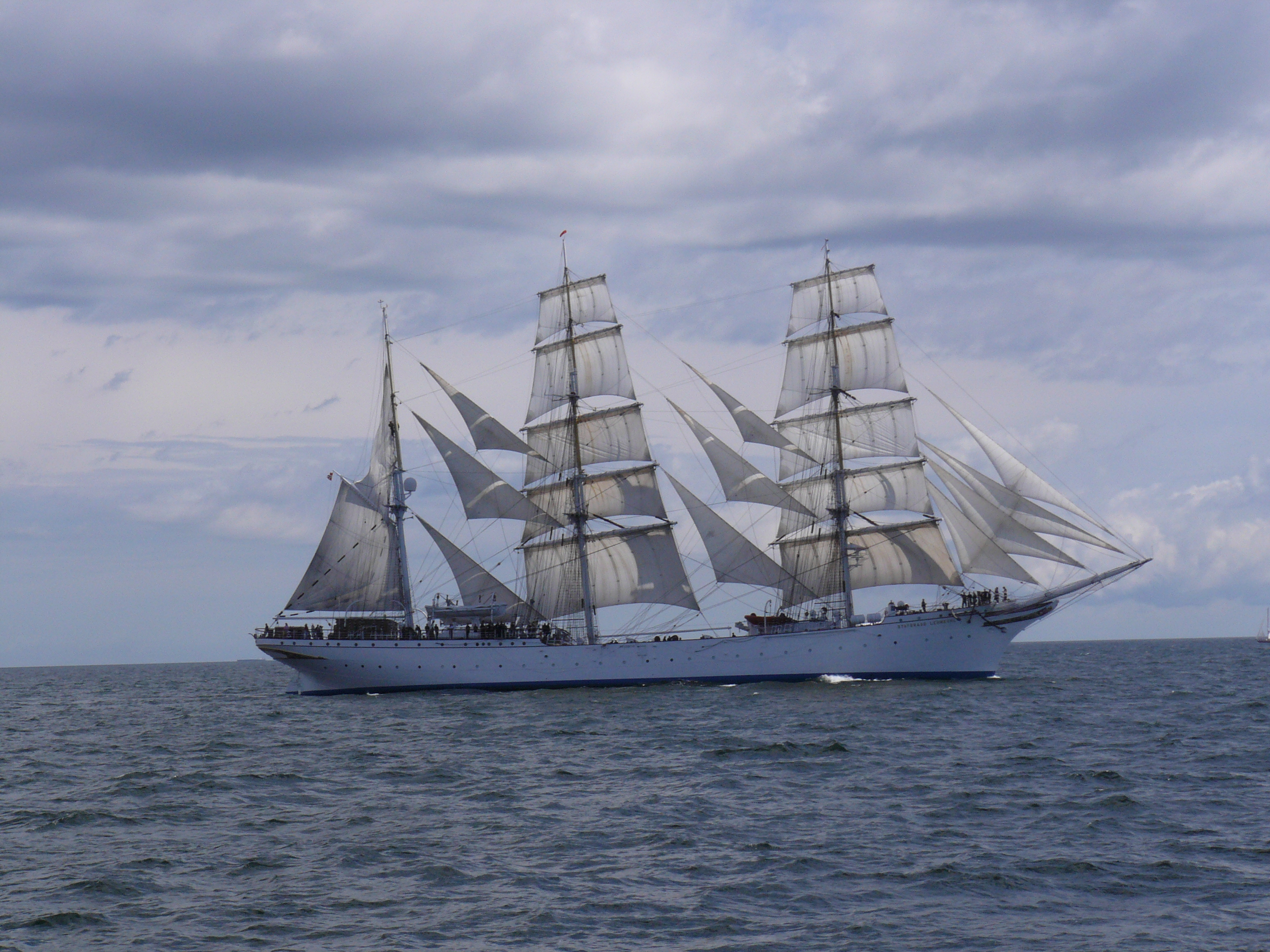 Christian radich . Wrong ship in photo. This photo is the ship 'Statsraad Lehmkuhl'. You can even see the name on the bow. Their rigs and size are very different.